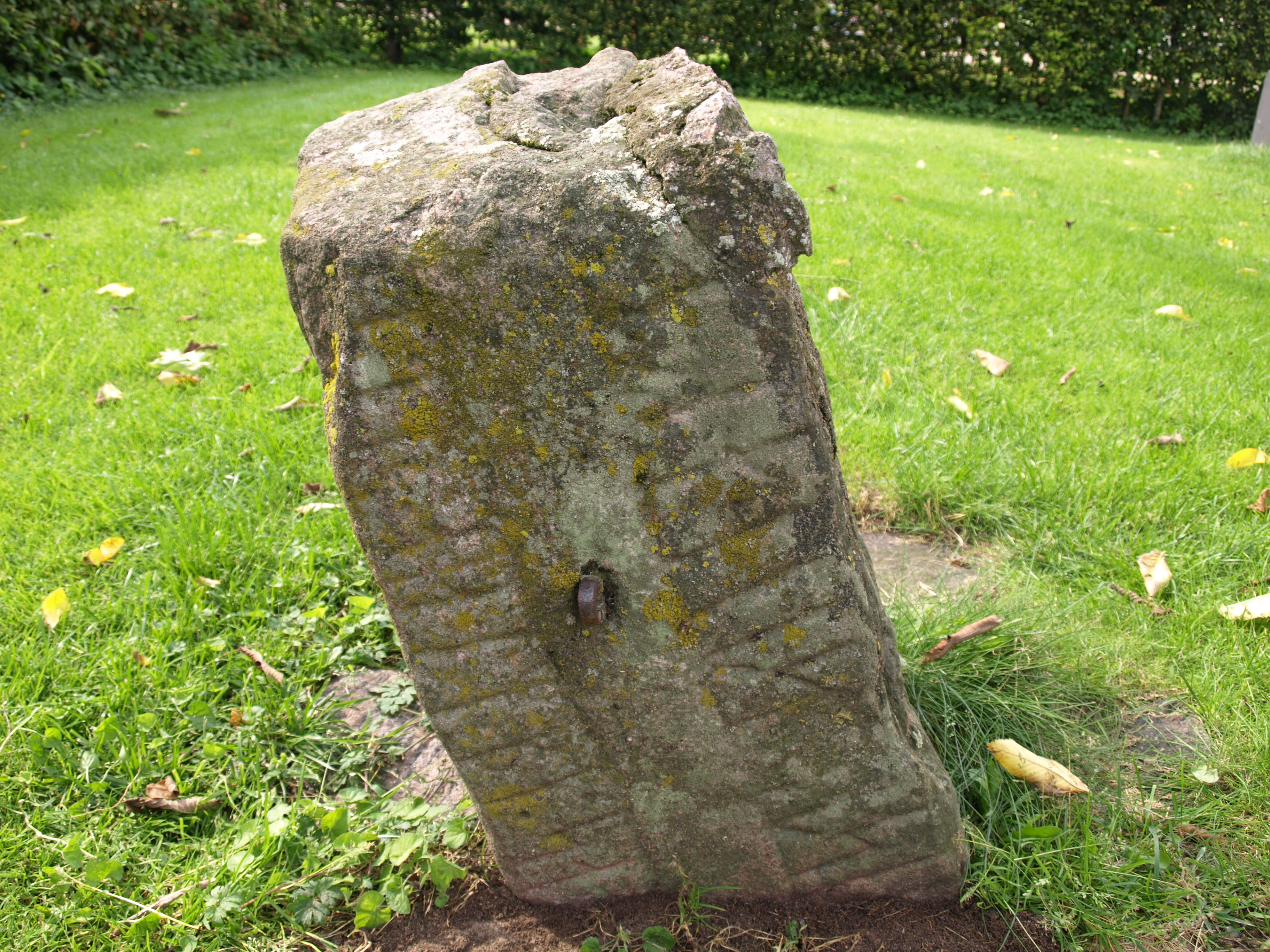 Runestone Danmarks runeindskrifter 352 at Wapnö Castle